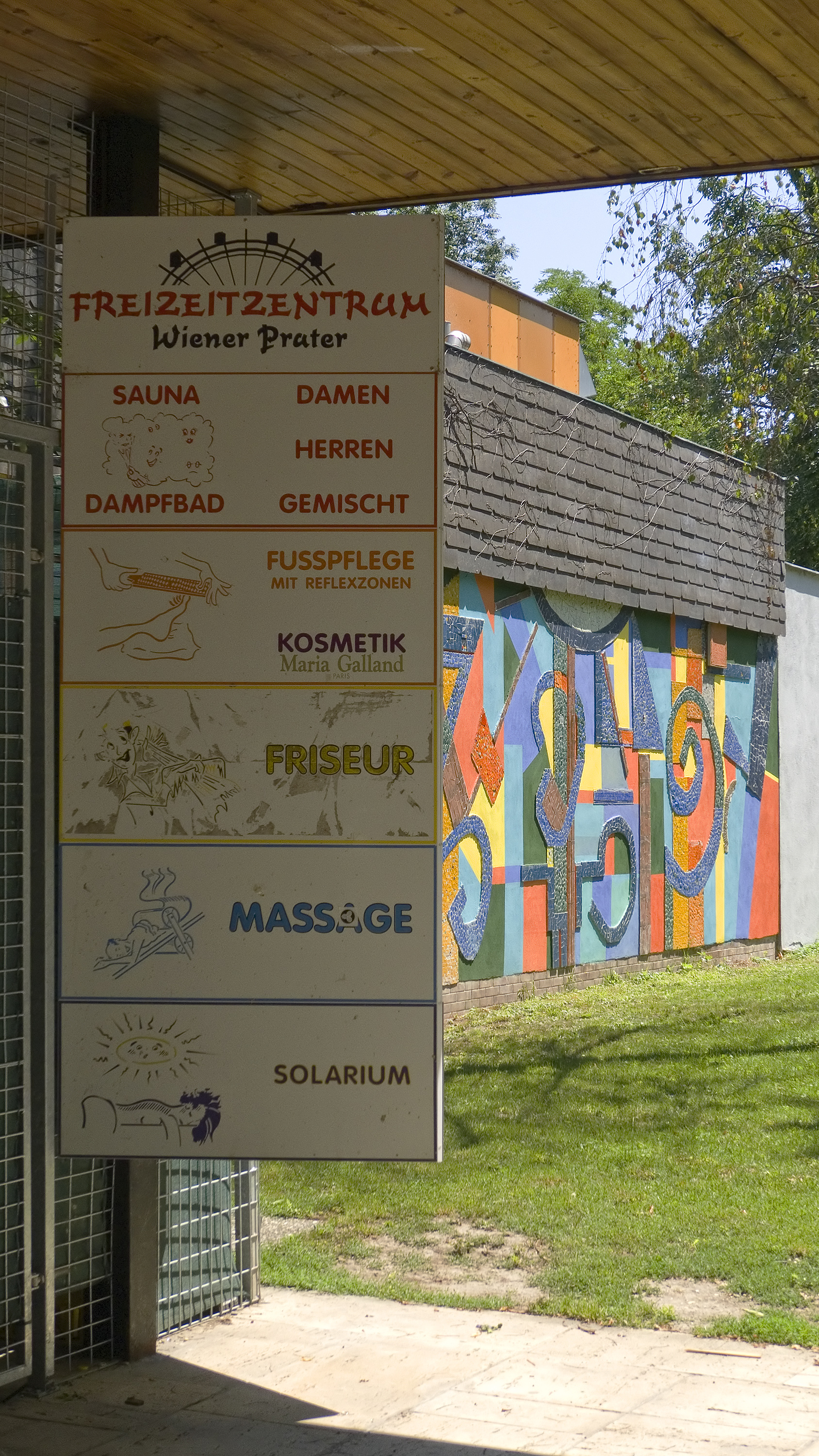 Sauna Pratersauna in Vienna 2